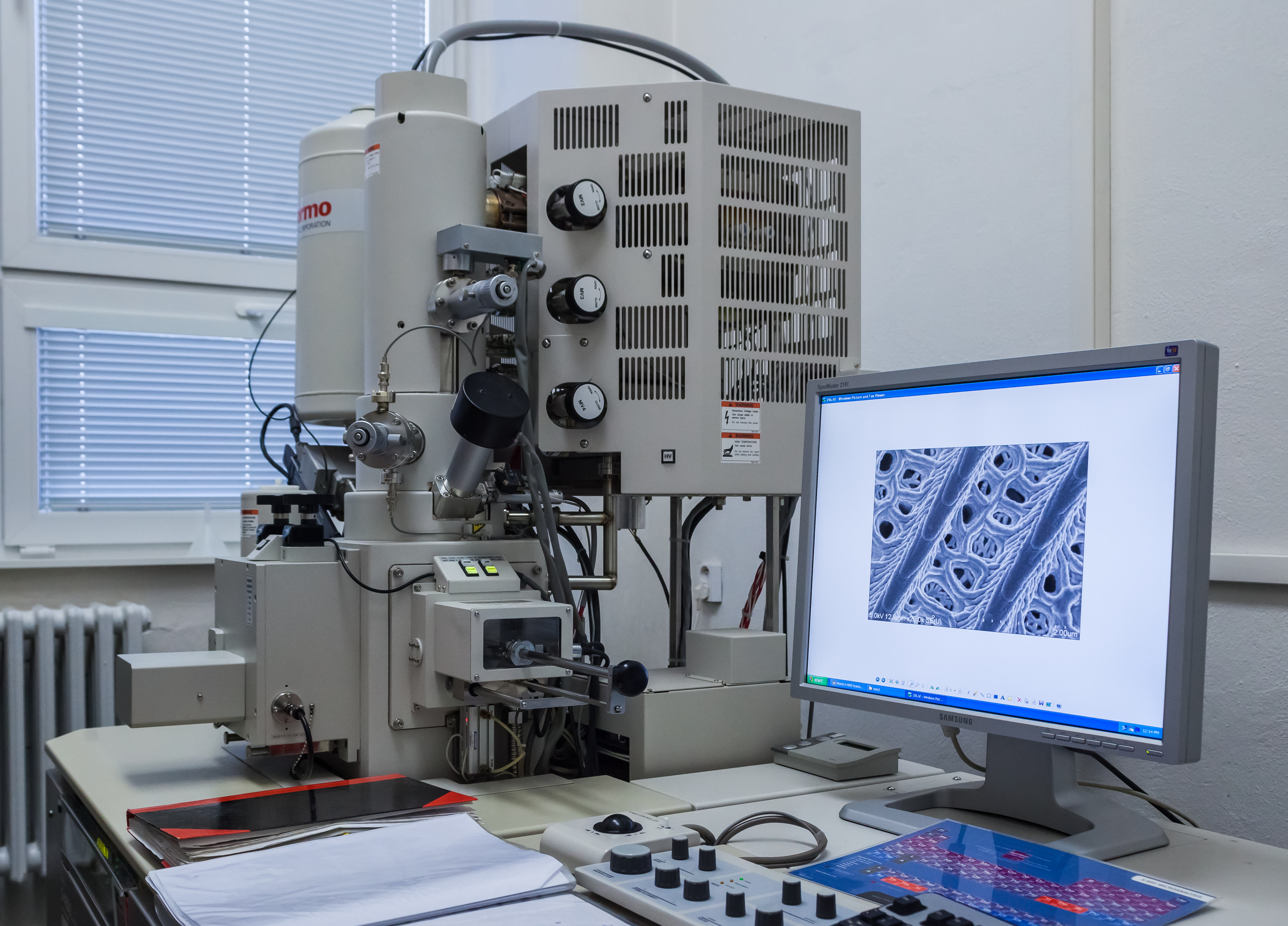 Laboratory of electron microscopy (scanning electrone microscope) at J. Heyrovsky Institute of Physical Chemistry of the Czech Academy of Sciences; Prague, Czechia (2020)